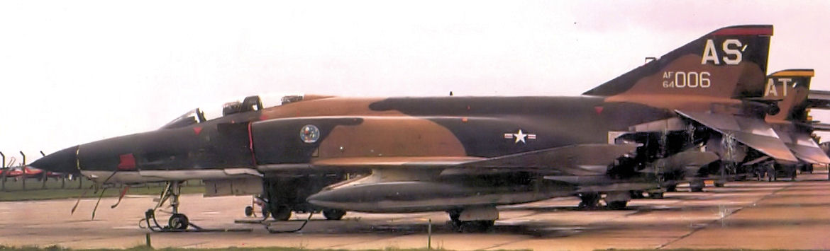 30th Tactical Reconnaissance Squadron - McDonnell RF-4C-20-MC Phantom - 64-1006 at RAF Alconbury